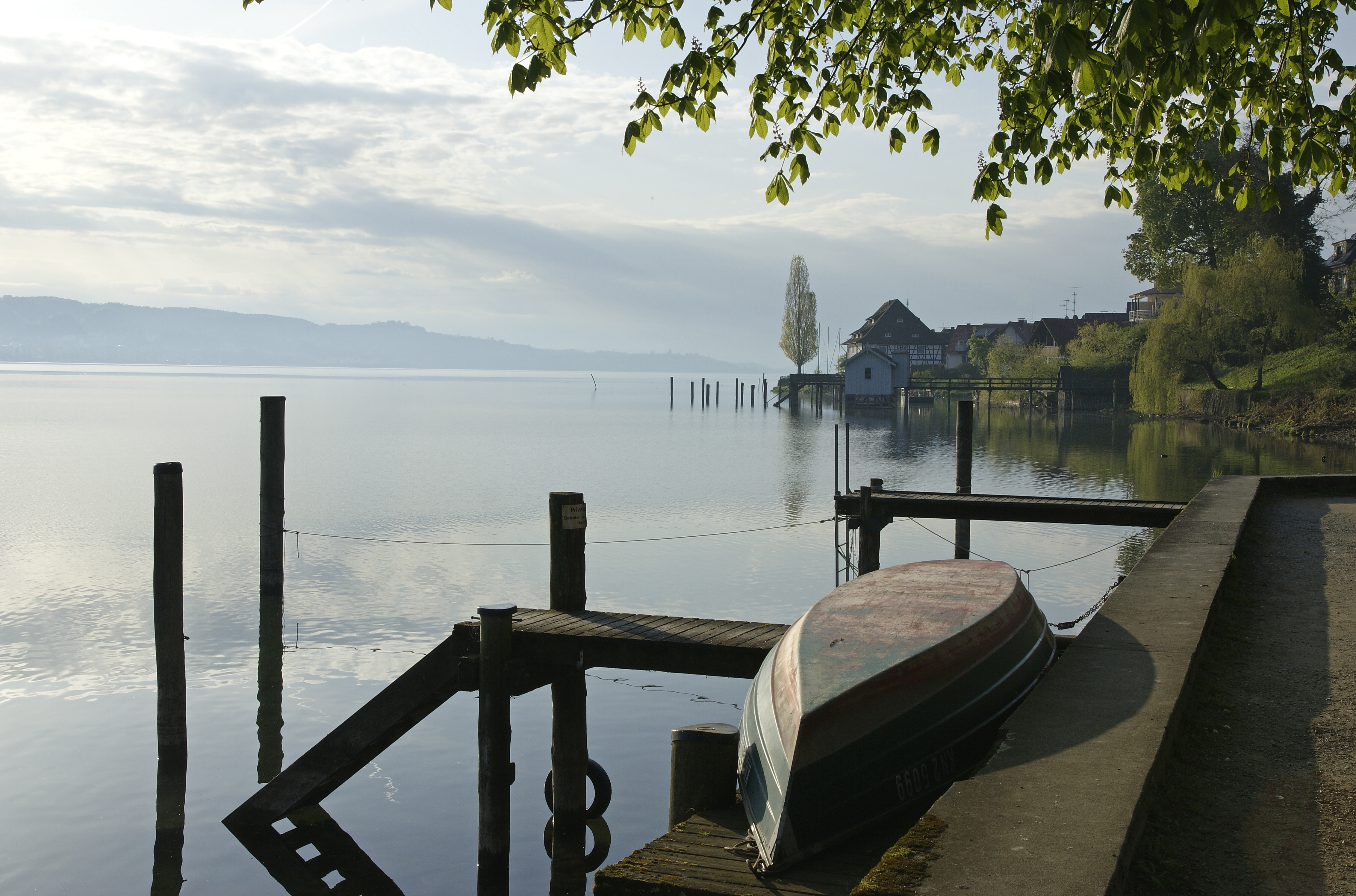 Hafen in Ludwigshafen